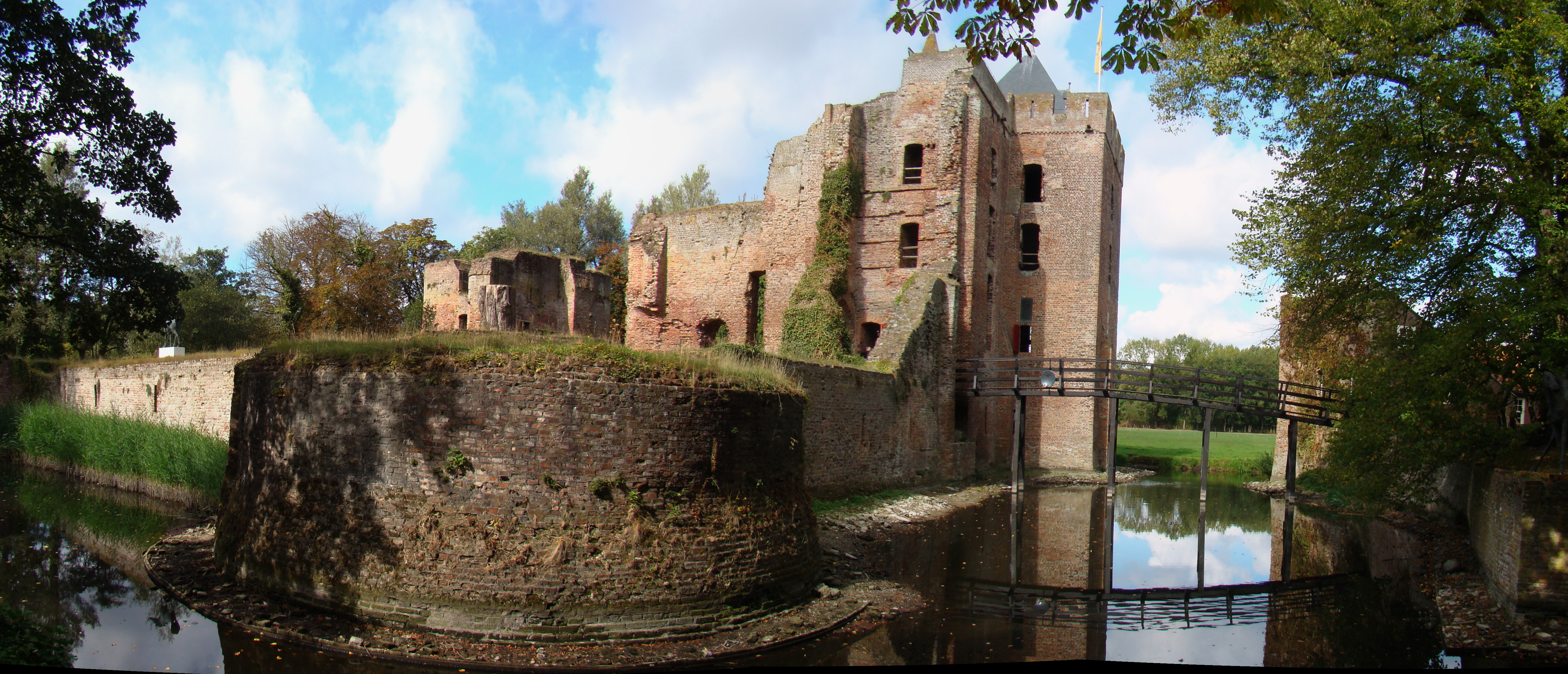 Runes of castle Brederode, Santpoort Zuid, Netherlands